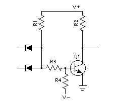 Diode–transistor logic (DTL) two-input nand gate